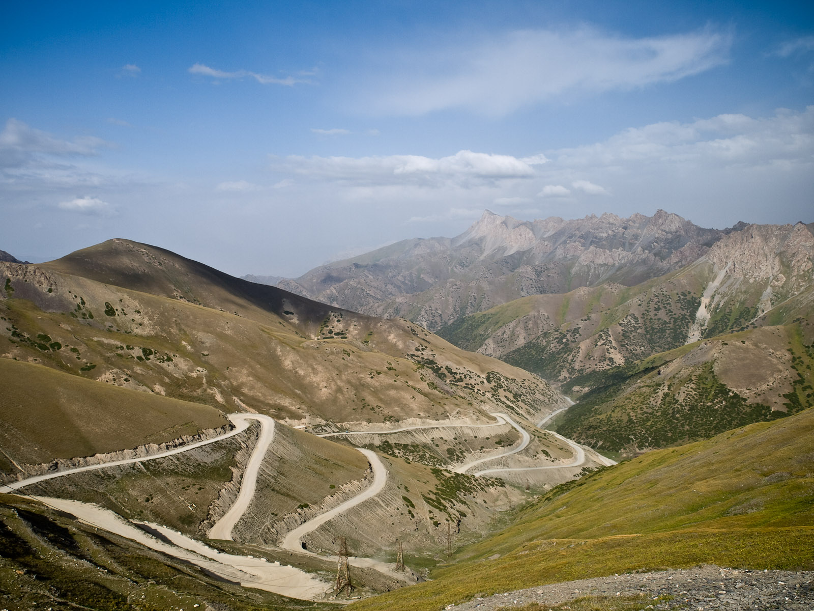 Taldyk Pass, Kirgisistan, Höhe/height ca. 3600m